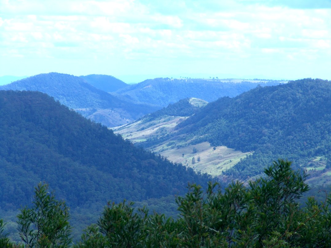 Binna Burra. Photograph by User:Johncatsoulis John Catsoulis, Binna Burra. Photograph by John Catsoulis